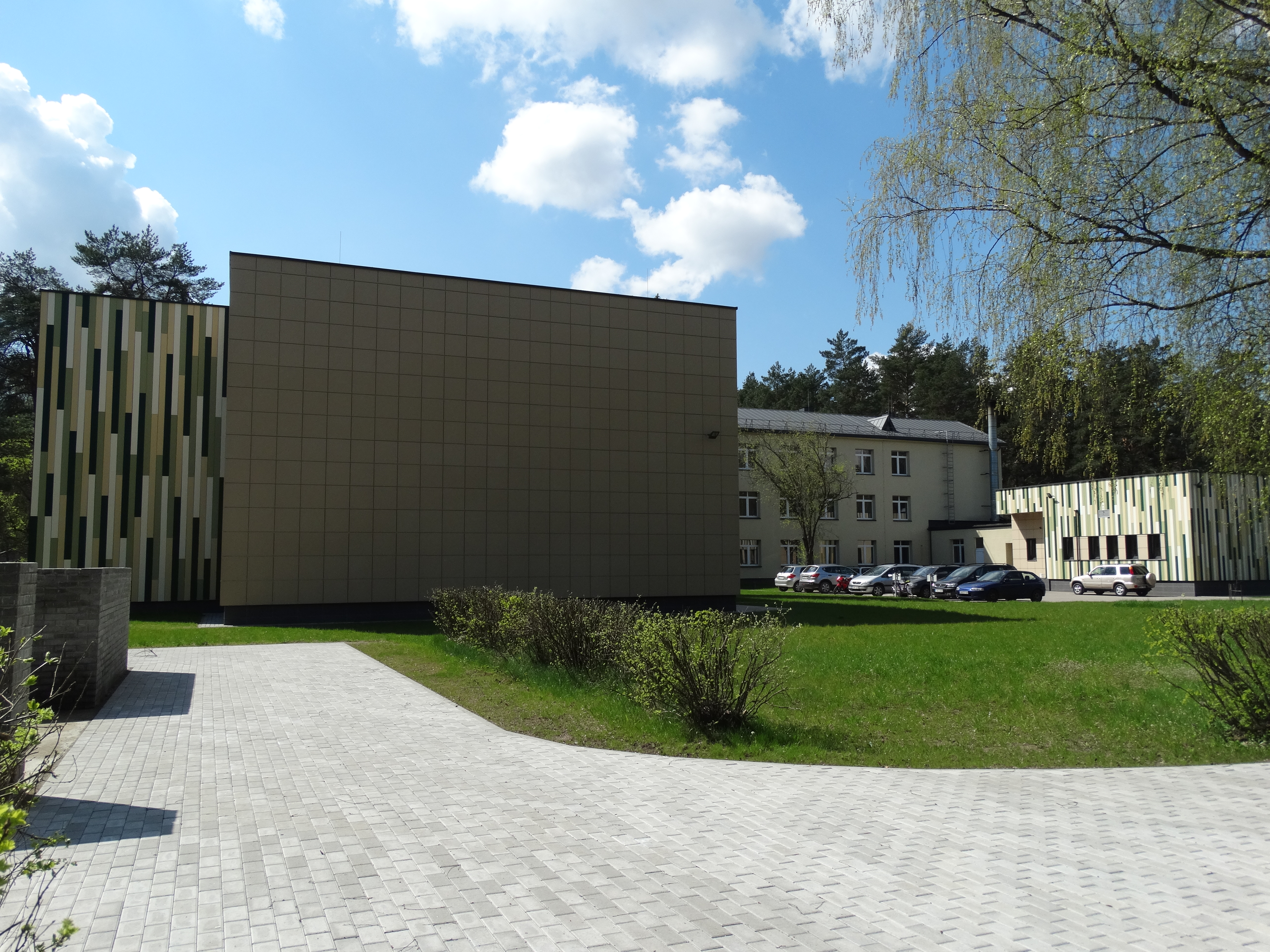 St. Urszula Ledóchowska Gymnasium in Juodšiliai, Vilnius District, Lithuania